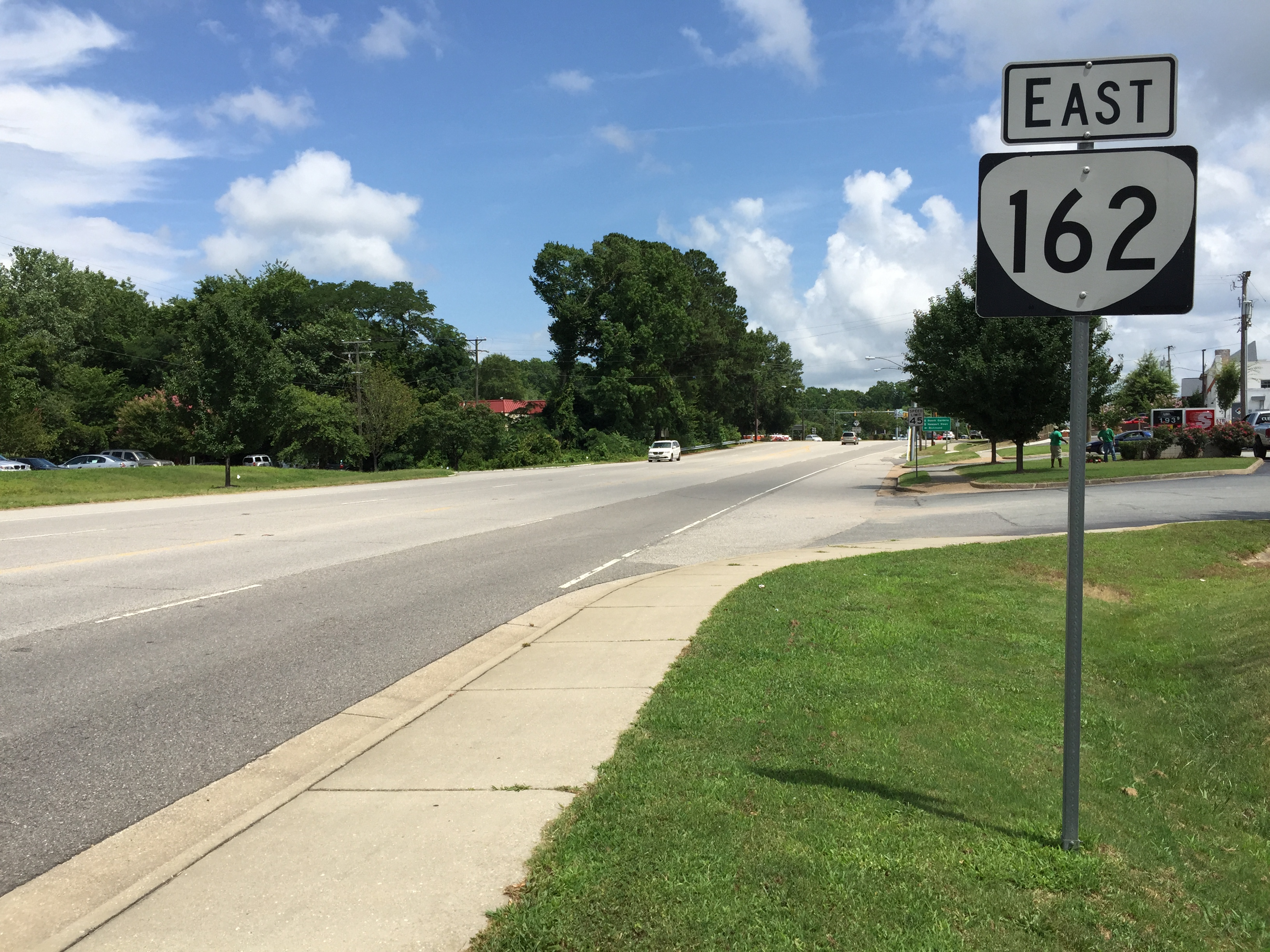 View east along Virginia State Route 162 (Second Street) between Parkway Drive and Virginia State Route 143 (Merrimac Trail) in Middletowne Farms, York County, Virginia